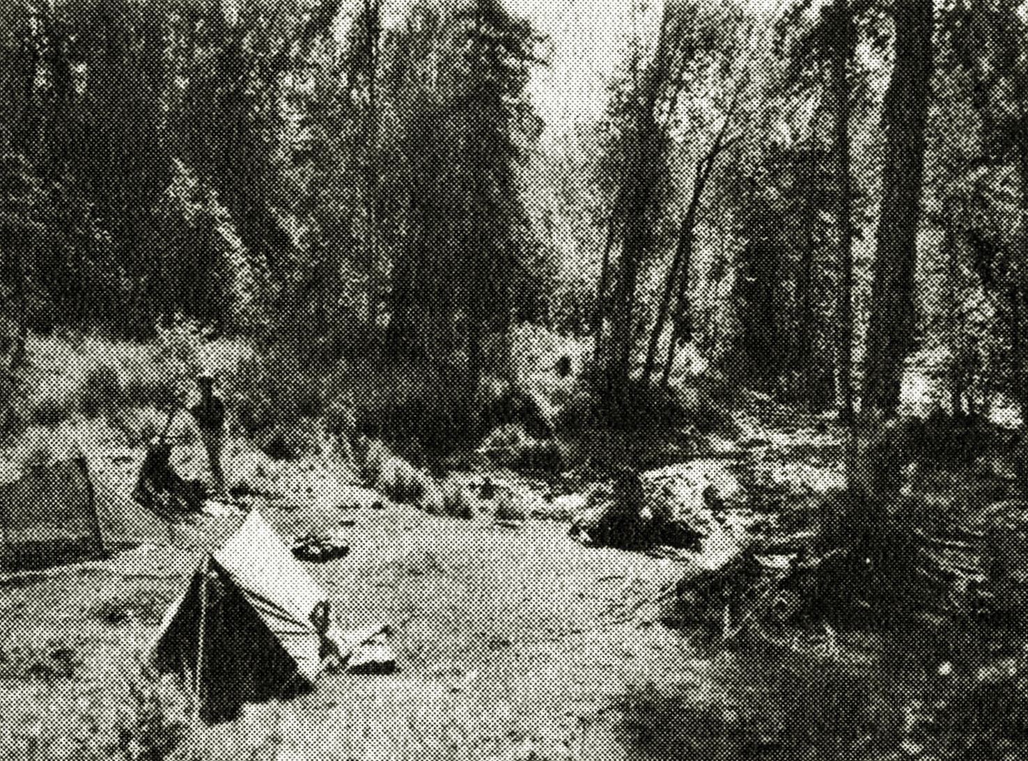 Tents pitched in the picnic area near Russian Jack Springs. Prior to the establishment of the present Russian Jack Springs Park in 1968, the City of Anchorage set aside a small portion of the area for recreation purposes, as most of the area was used as a prison farm.